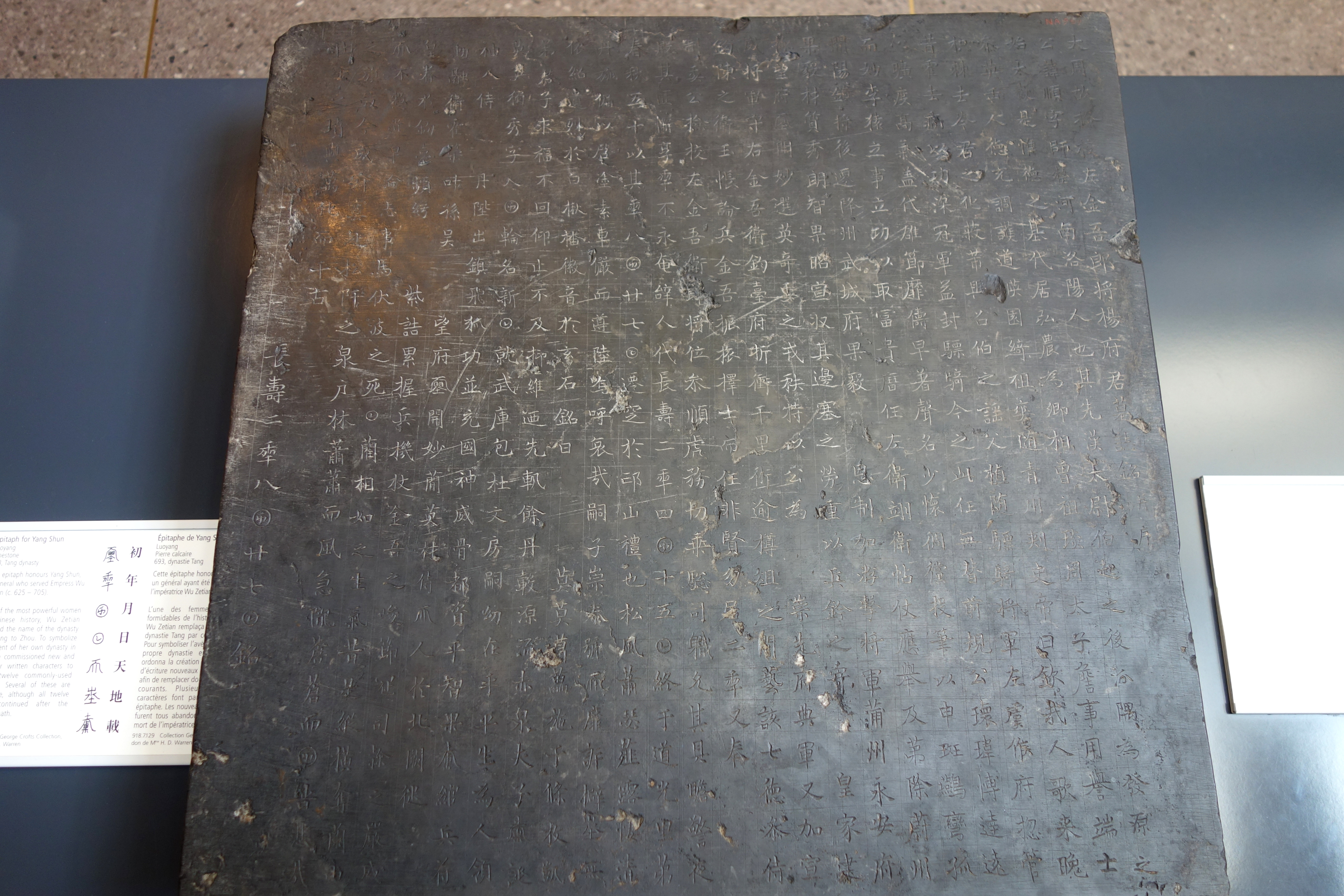 Exhibit in the Royal Ontario Museum, Toronto, Ontario, Canada. This work is old enough so that it is in the public domain.